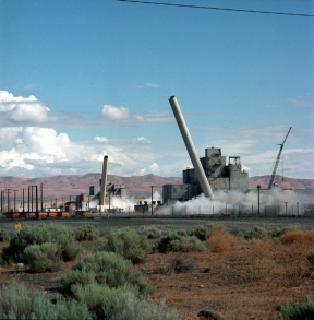 Dismantling the D Reactor at the Hanford site.